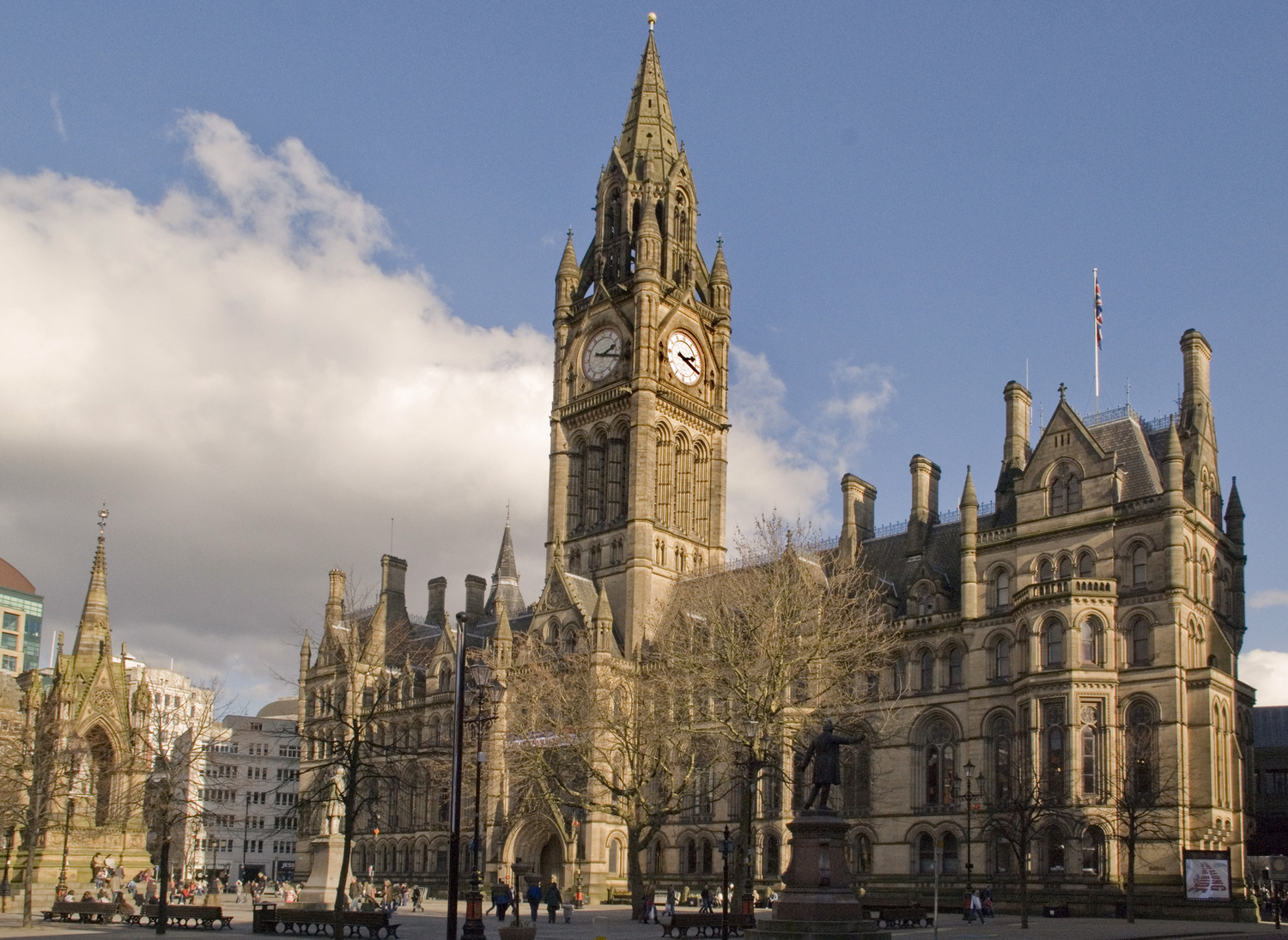 Manchester Town Hall seen from Lloyd Street, Manchester, England, UK.